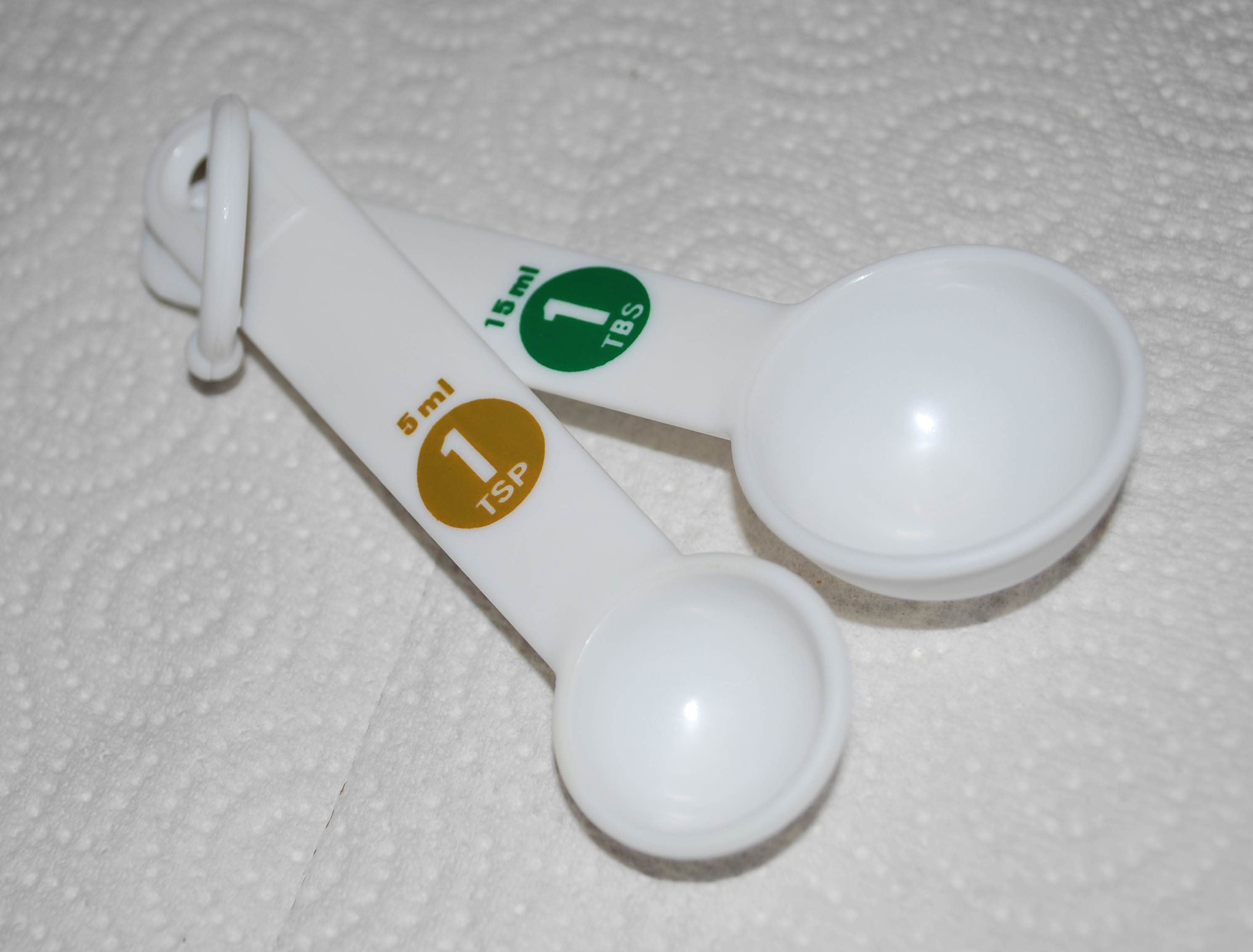 A teaspoon and tablespoon, side by side.